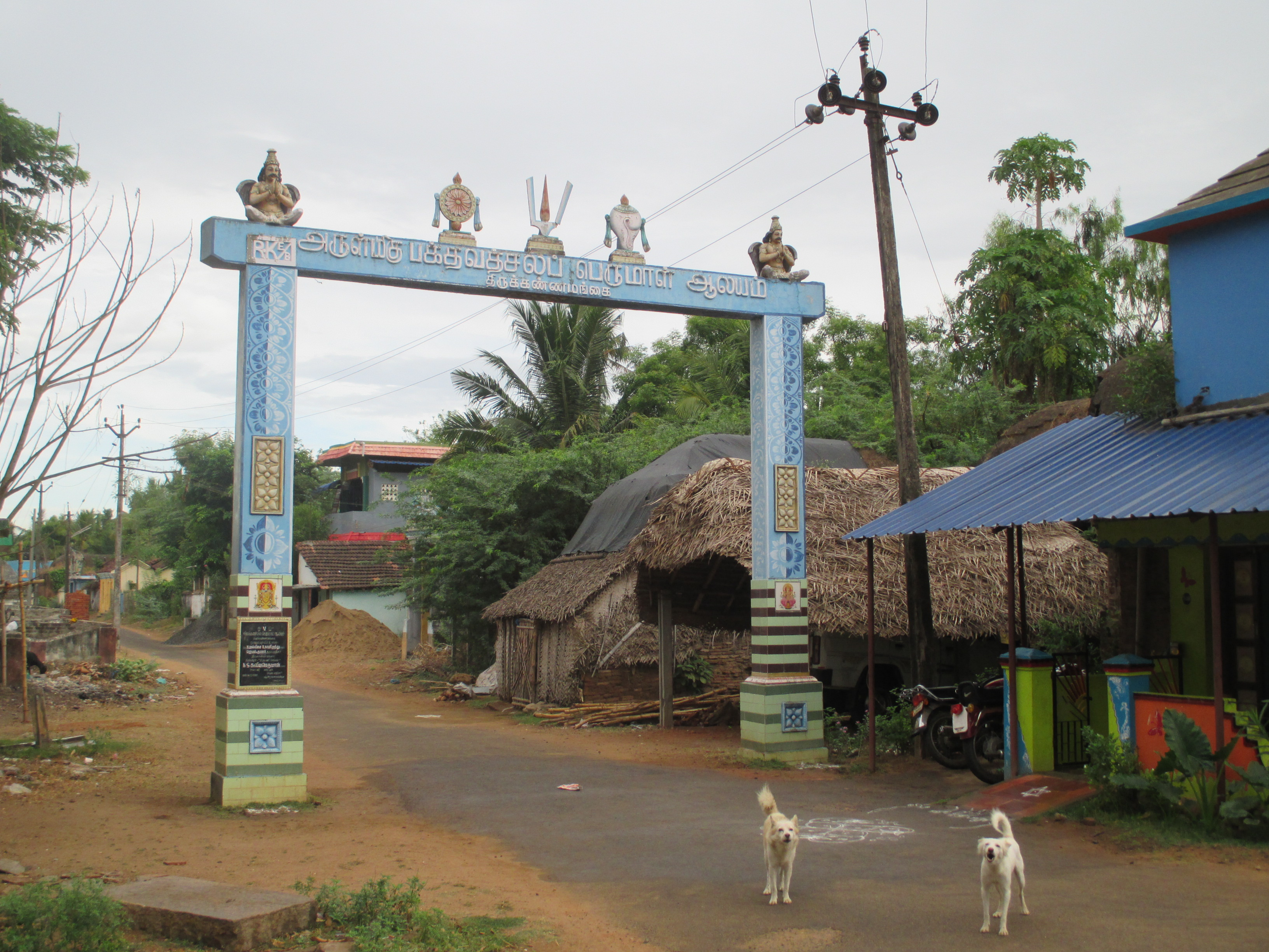 Bhaktavatsala Perumal temple, Tirukannamangai